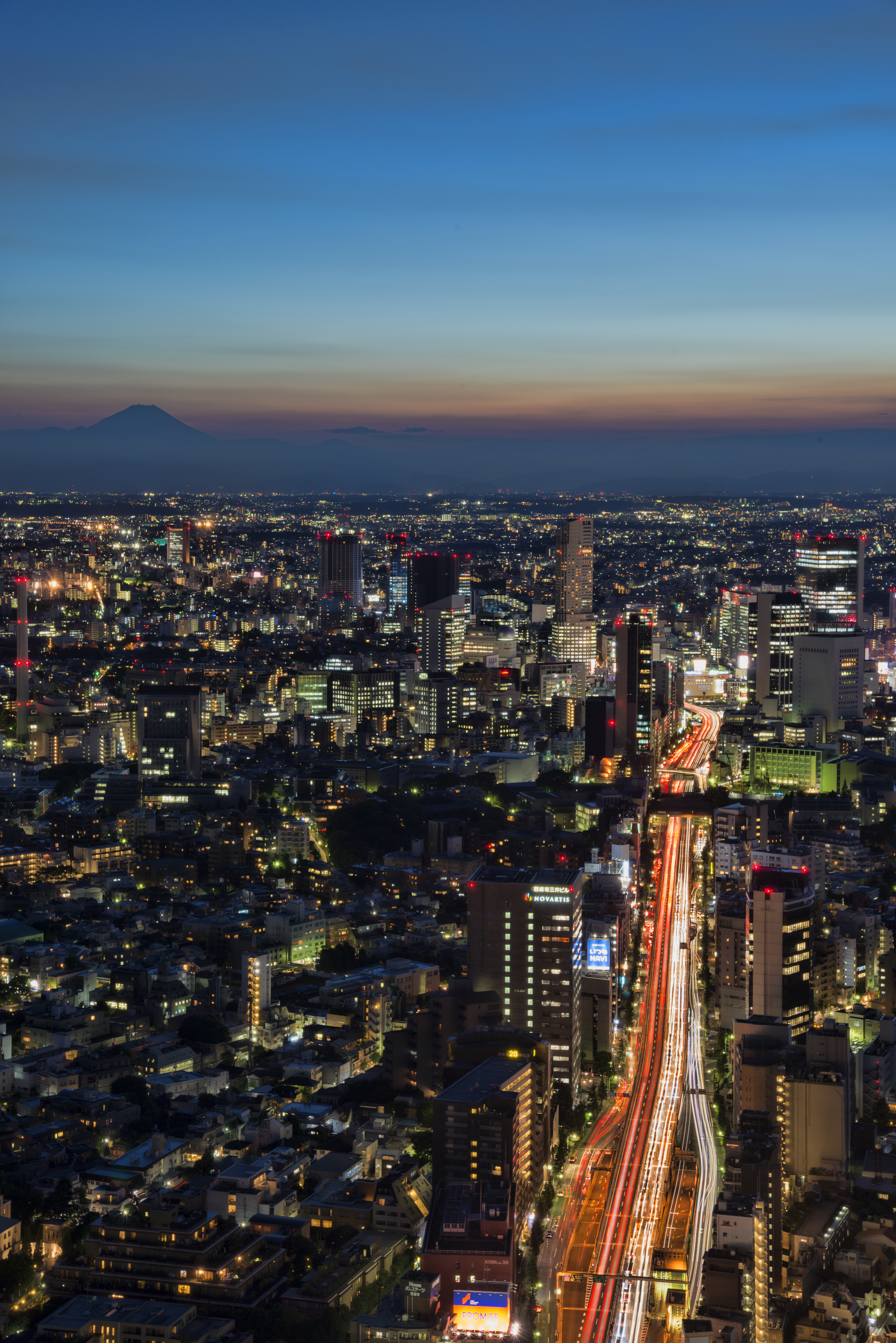 roppongi hills mori tower tokyo japan 2012 shibuya mount fuji